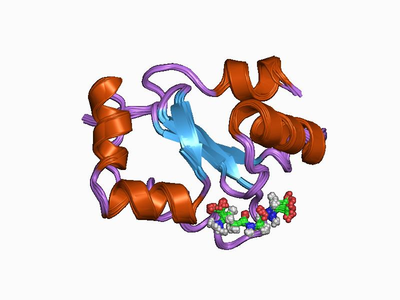 Cartoon representation of the molecular structure of protein registered with 1b4q code.